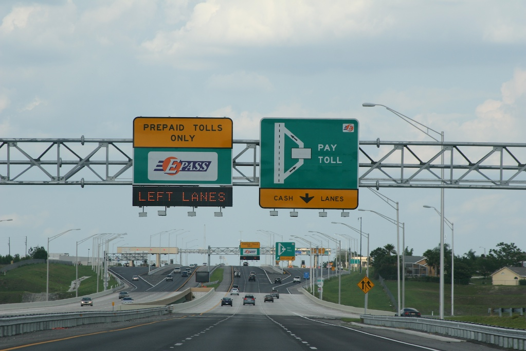 Florida State Road 408